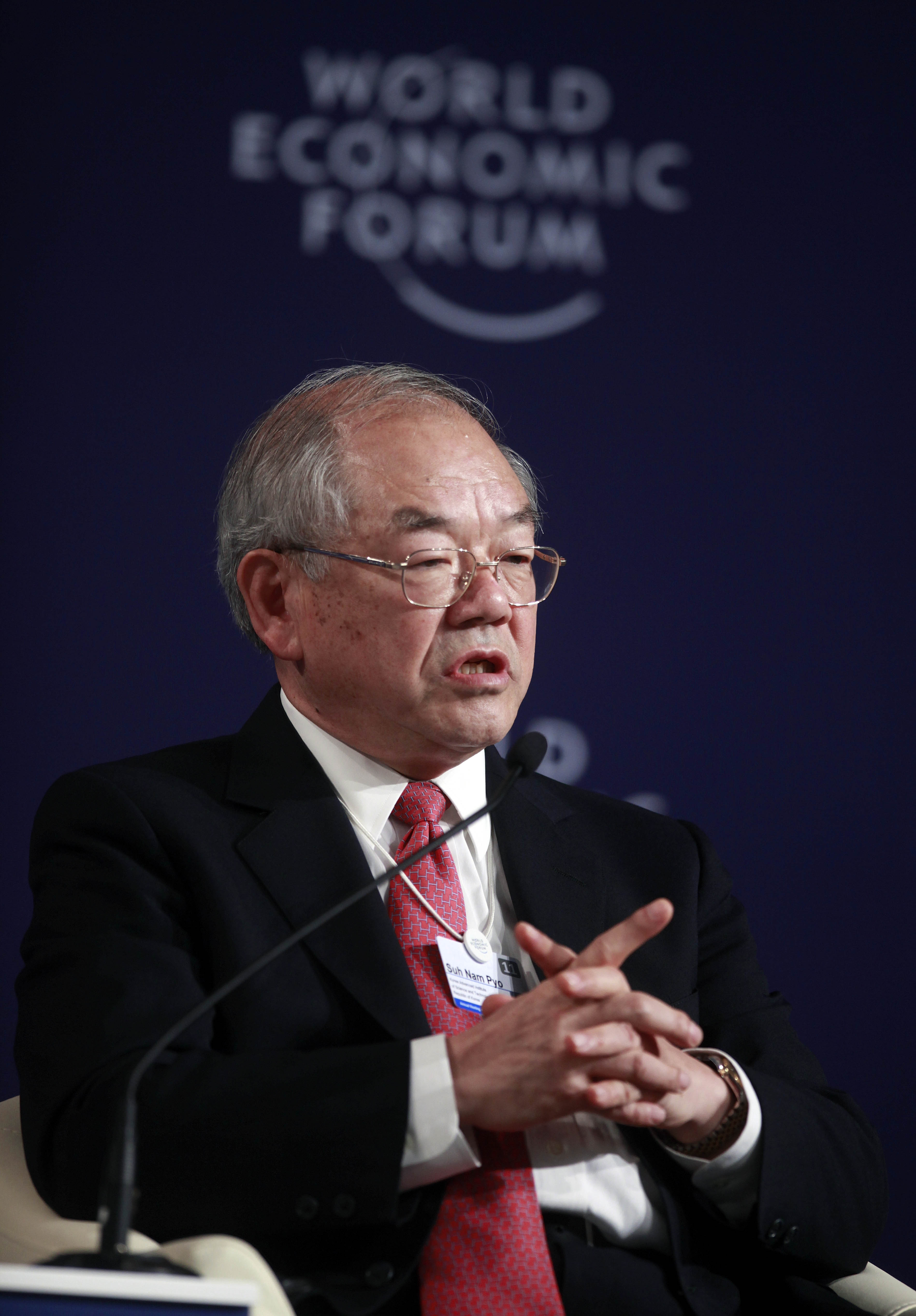 DALIAN/CHINA, 14SEP11 - Suh Nam Pyo, President, Korea Advanced Institute of Scie and Technology, speaks during the "Embracing Disruptive Innovation" at the Annual Meeting of the New Champions in Dalian, China, September 14, 2011. Copyright World Economic Forum ( Shen